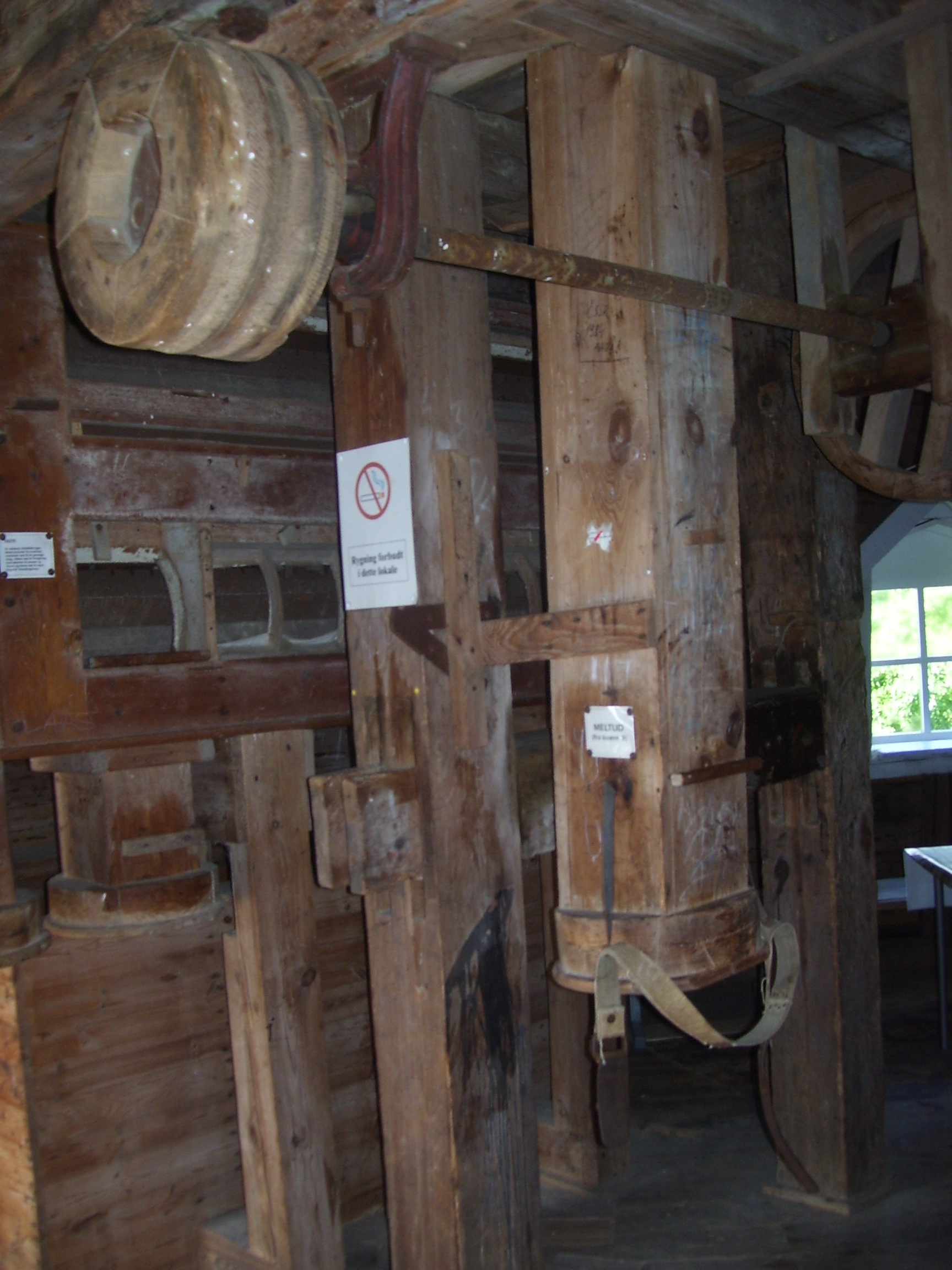 Broloftet i Melby Mølle